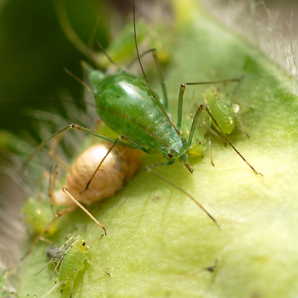 Adult pea aphid (wingless green morph) and progeny feeding on a pod of Cytisus scoparius.